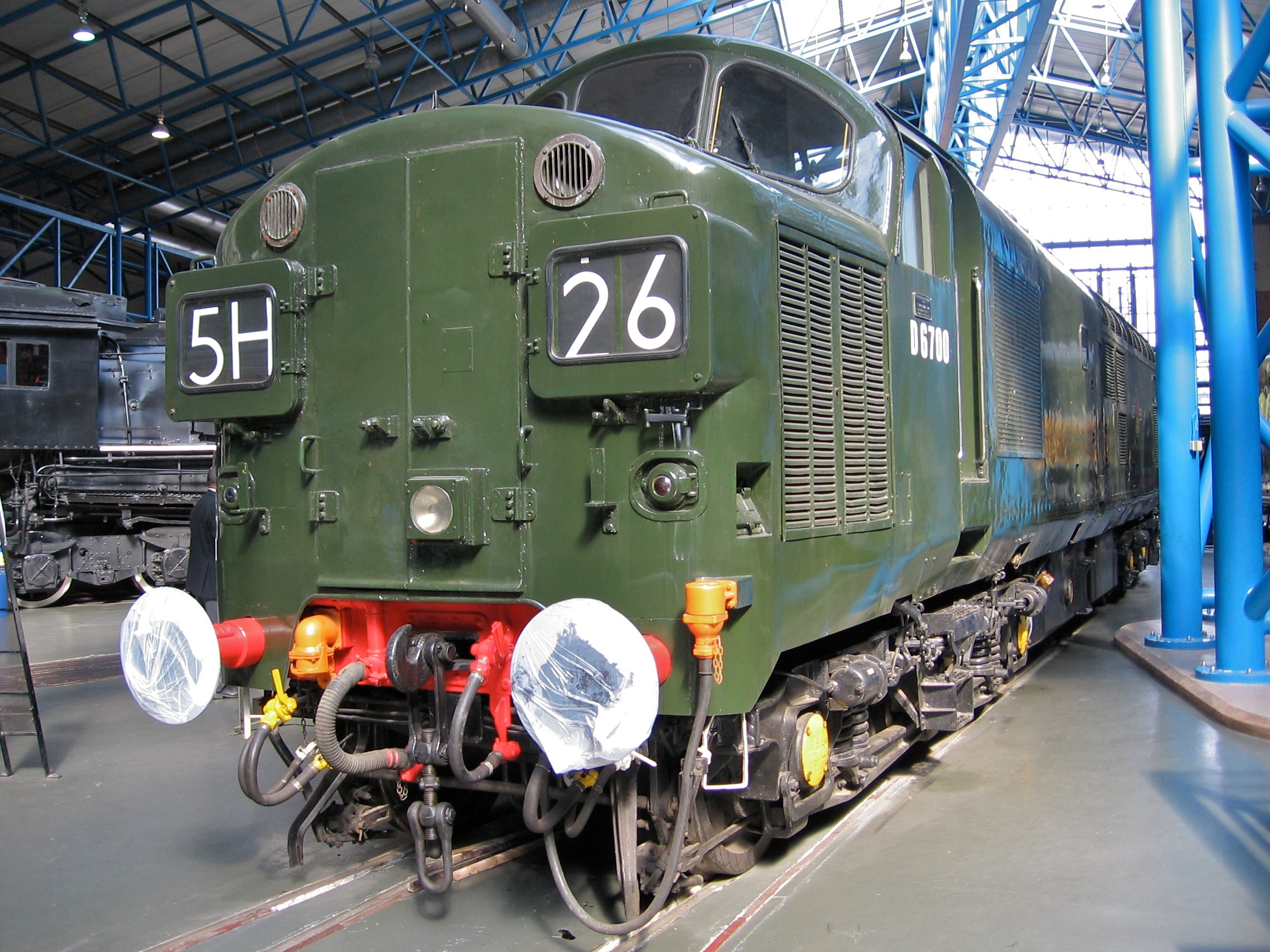 D6700 at the UK National Railway Museum, York.